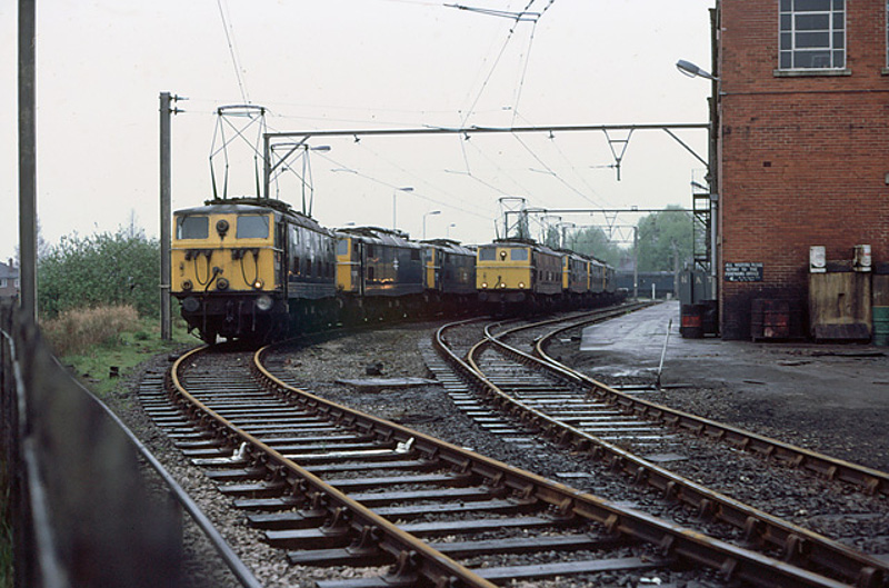 Reddish Loco Depot